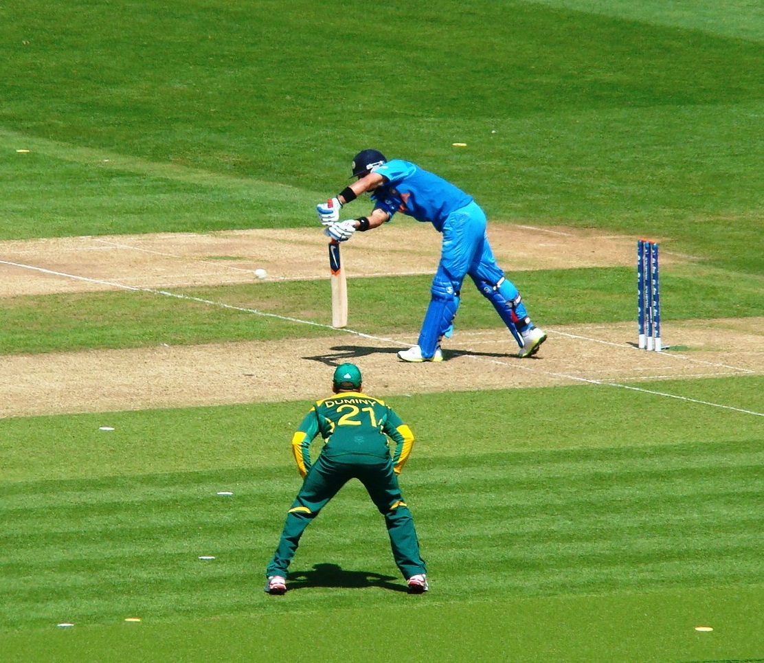 Indian cricketer Virat Kohli batting against South Africa during the 2013 ICC Champions Trophy.